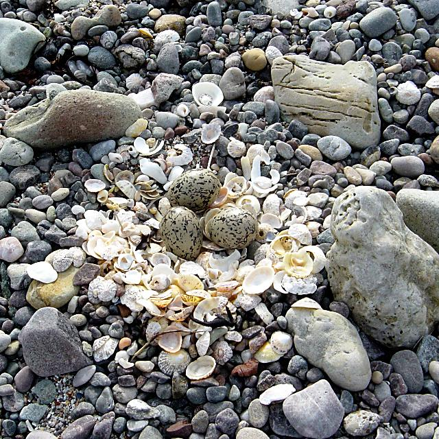 Oystercatcher nest on Inch Kenneth Like every other nest I've ever found on a beach, this one suddenly snapped into view with a second to spare before I trod on it. Although the eggs are camouflaged, this bird had chosen to make the nest more visible with a scattering of broken shells, mostly limpets, and if not for that I would not have seen the nest in time, so maybe there is some survival value in not having perfect camouflage !